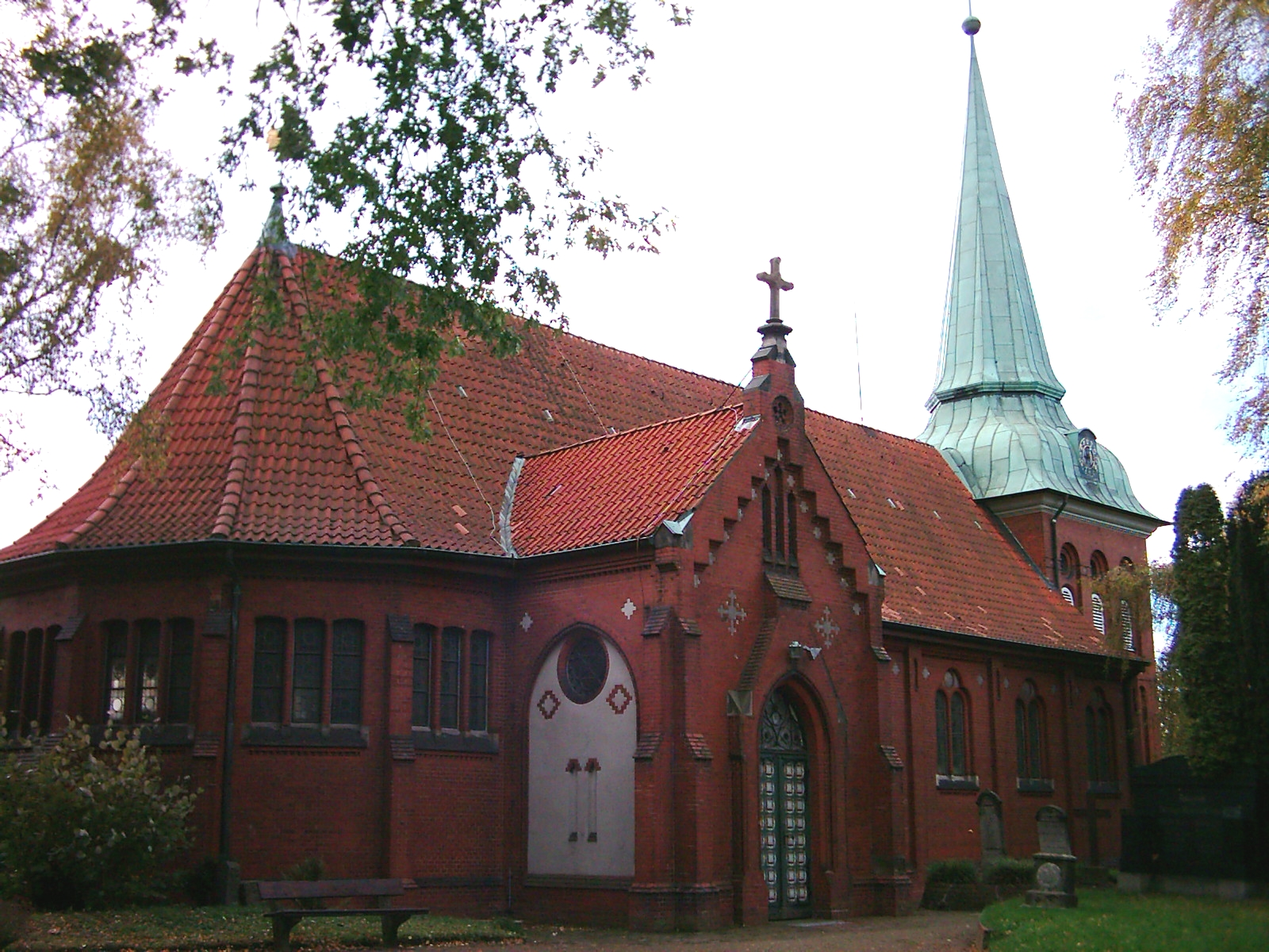 St. Maria-Magdalena-Church in Hamburg, Germany.